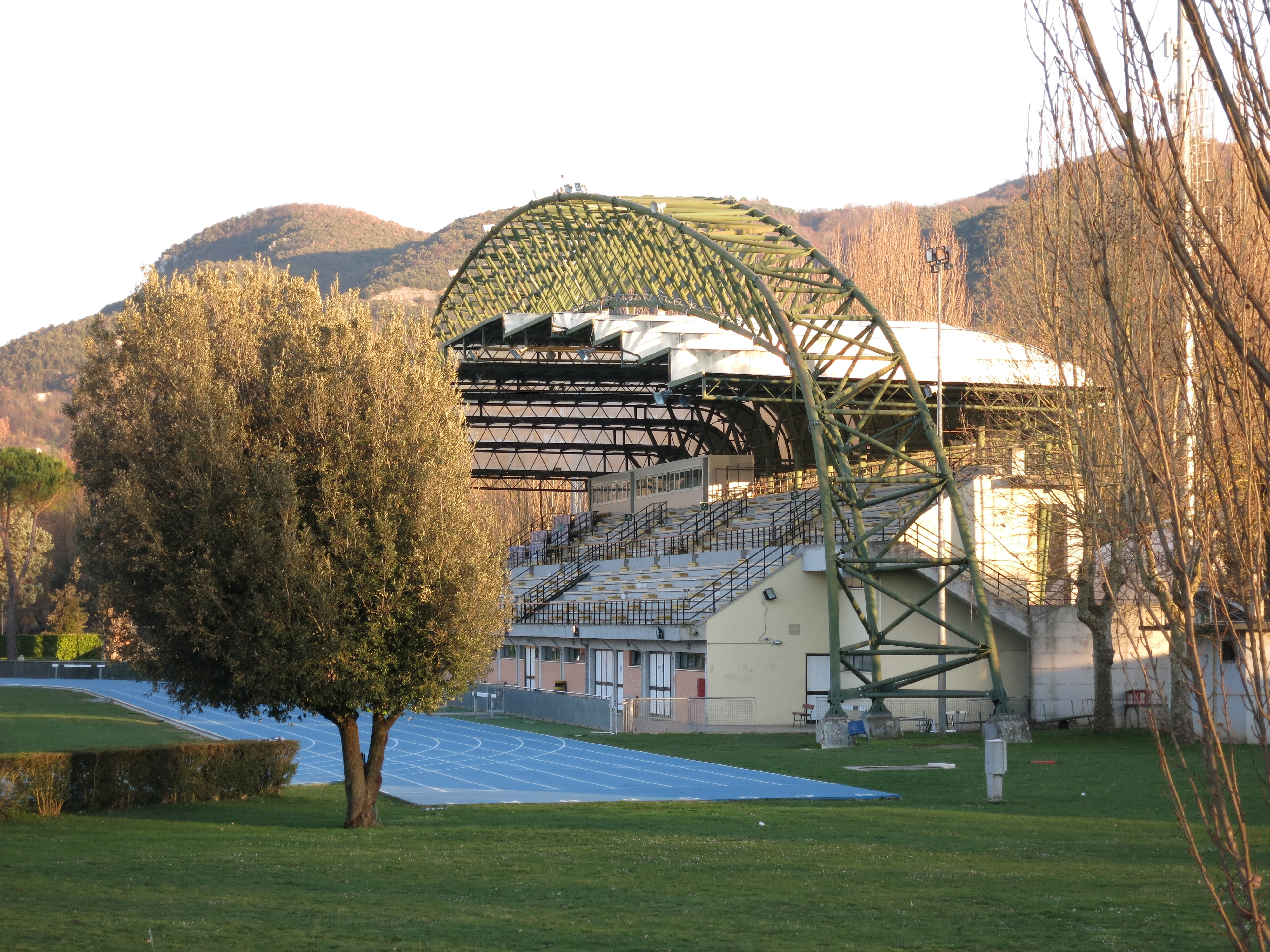 The "Velino" grandstand as seen from the embankment of the Velino river - Stadio Raul Guidobaldi, athletics venue in Rieti, Lazio, Italy